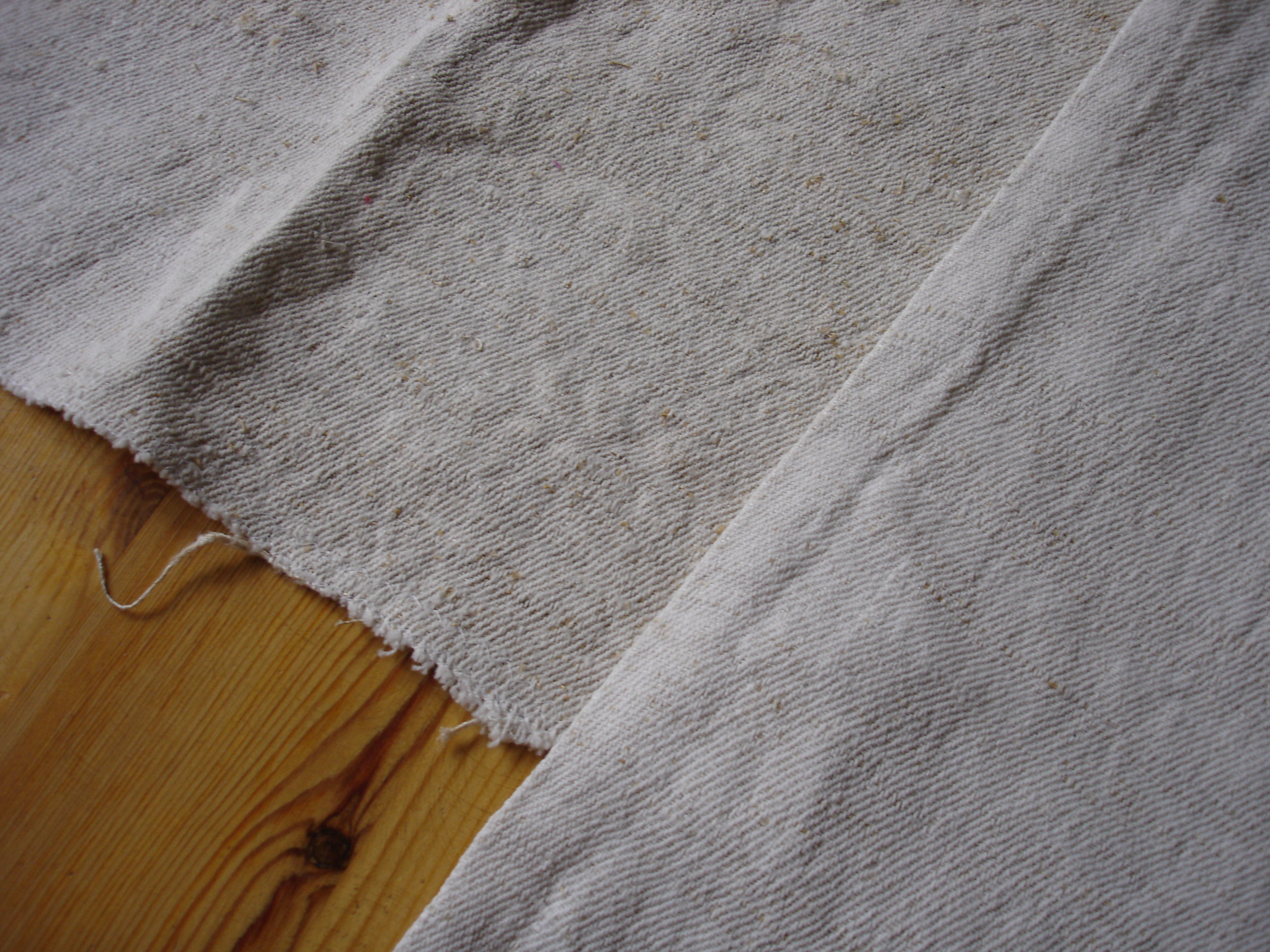 Blaggarnsväv, a type of fabric made from short fibres. The piece on the left is new, while the one on the right was woven in Dalarna, Sweden, around 1920 and has been washed many times.